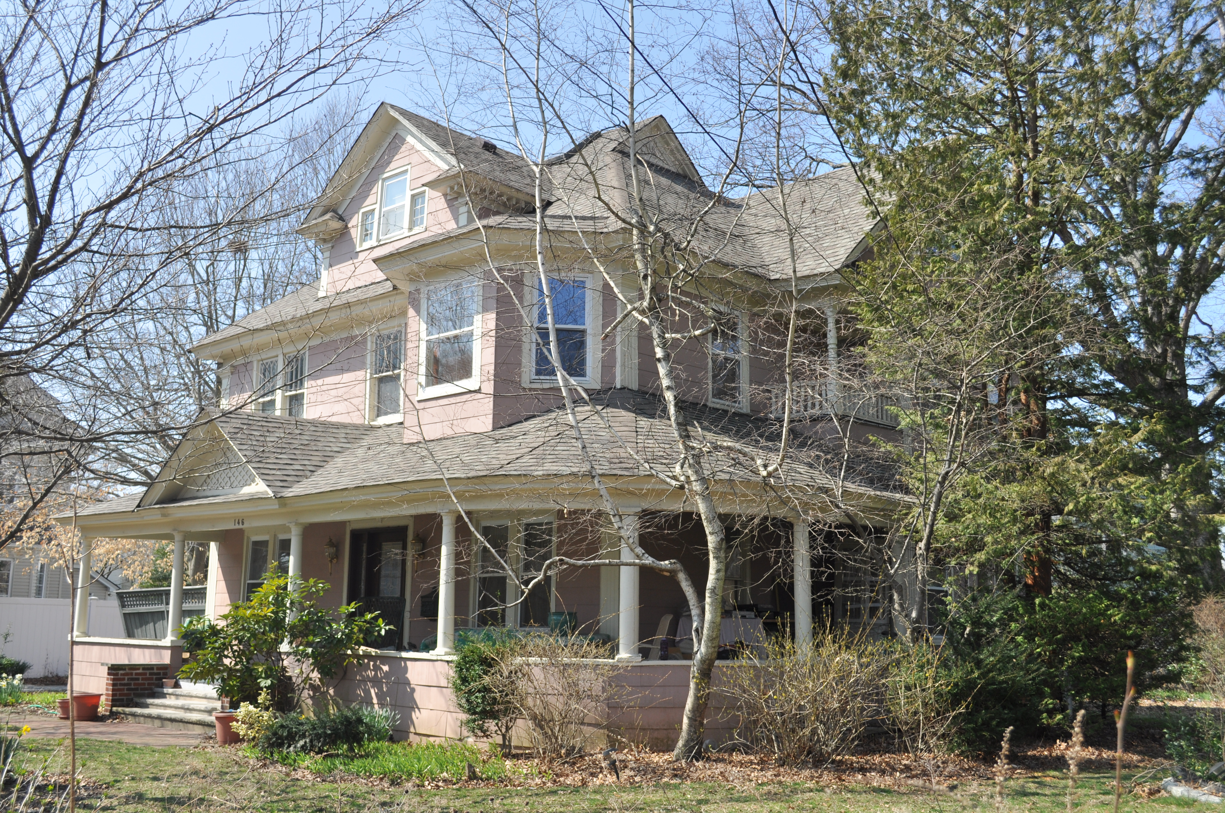 146 Lena Avenue, Freeport, Long Island, New York. The "Miracle House" or "Freeport Spite House" was largely erected in a single day in 1906 at the behest of developer John Randall. It prevented a rival developer's plan to continue Lena Avenue westward in a straight line, and resulted in Lena Avenue veering to the south, with Wilson Place to the north.